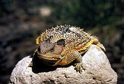 A Short-horned Lizard on a rock. Either Phrynosoma douglasii or Phrynosoma hernandesi.